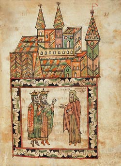 Metropolitan Cyprian